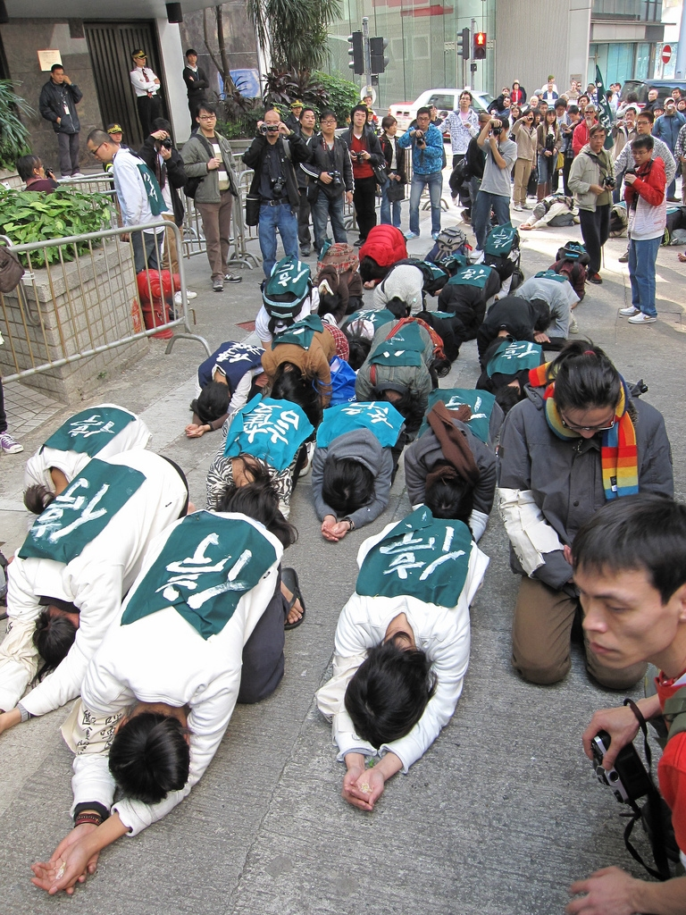 Anti-Guangzhou-Shenzhen-Hong Kong rail oppositions Jan 2010 protest